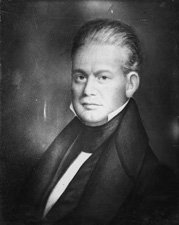 Portrait of Senator Jesse Bledsoe of Kentucky